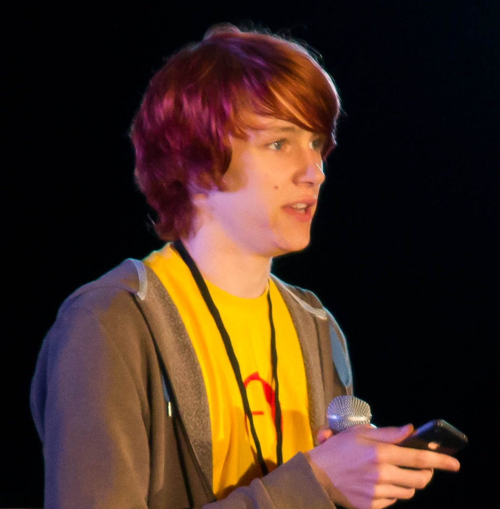 Charlie McDonnell at vidcon [youtube gathering] 2010.